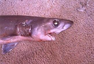 Head of a crocodile shark (Pseudocarcharias kamoharai)